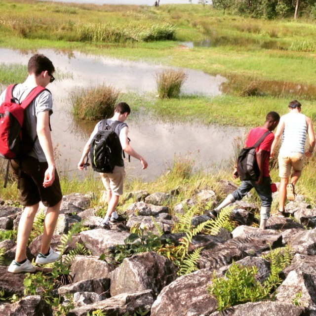 Tour guider, Gab at work This is an image of "African people at work" from Malawi